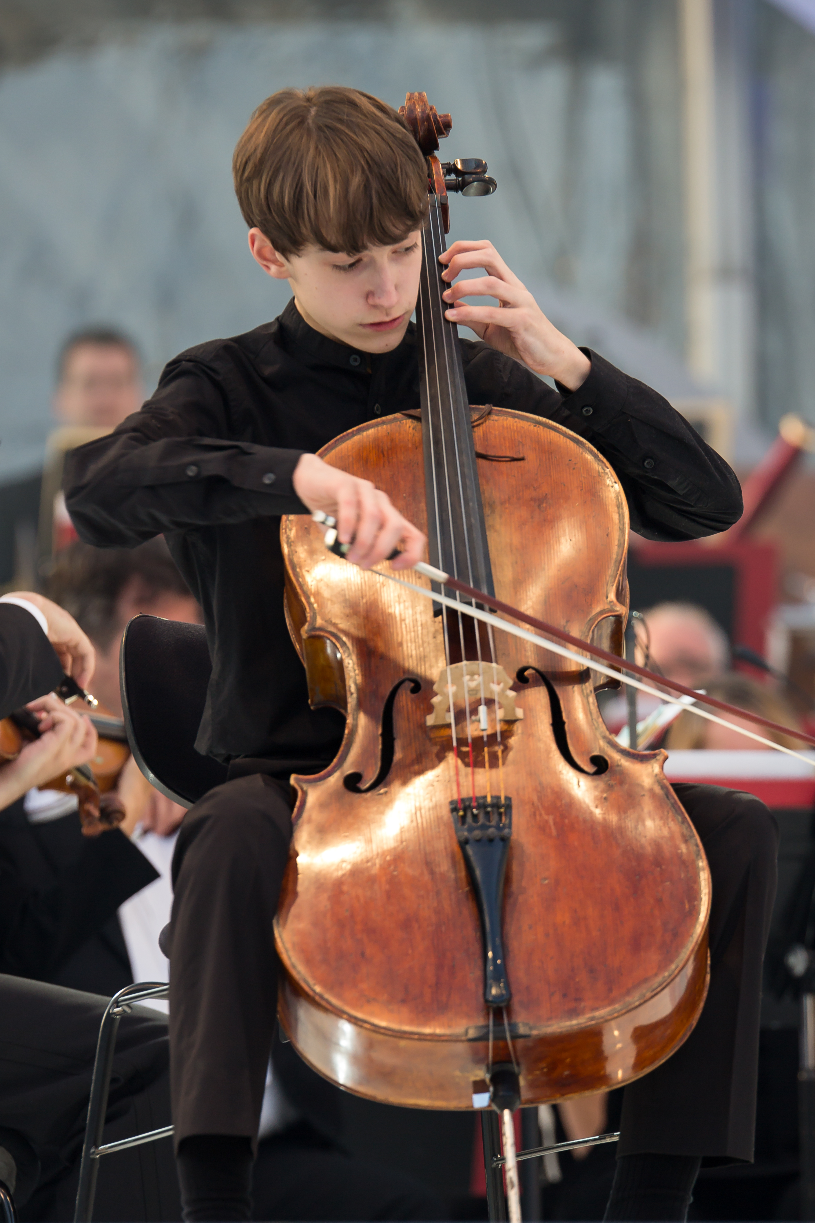 Gergely Devich at final rehearsal for Eurovision Young Musicians 2014